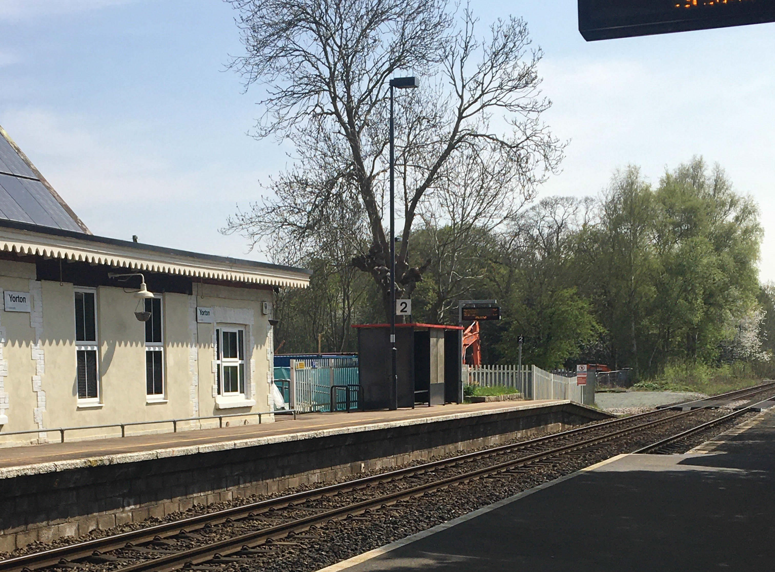 Yorton railway station serves the small villages of Yorton and Clive in North Shropshire, England.